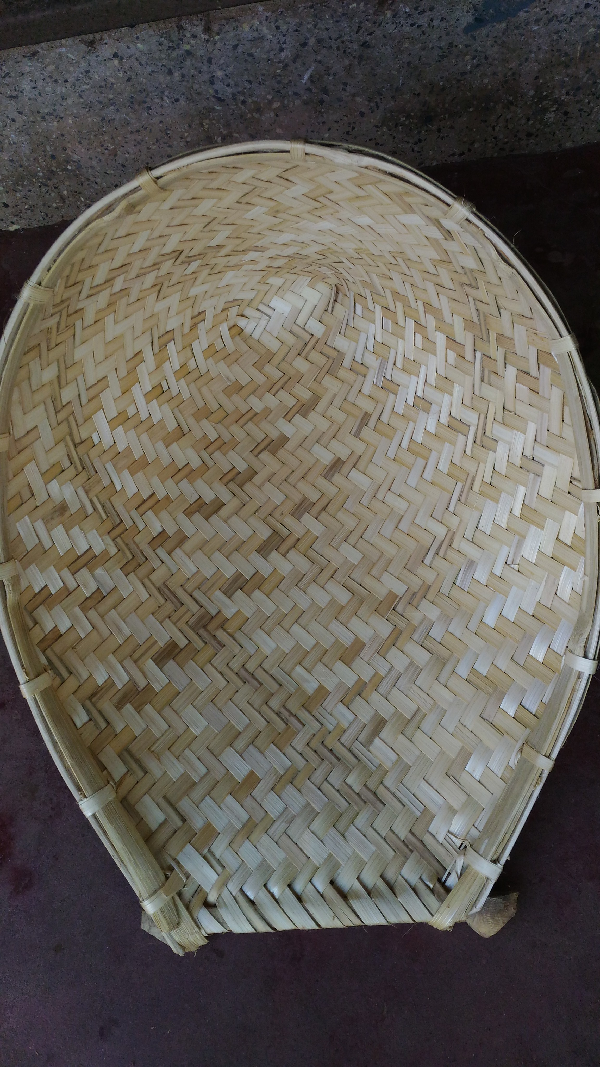 A Bamboo Muram